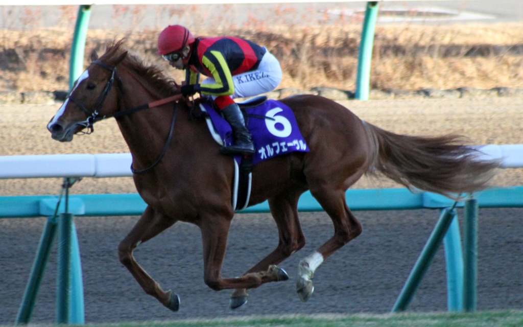 58th Arima Kinen winner Orfevre